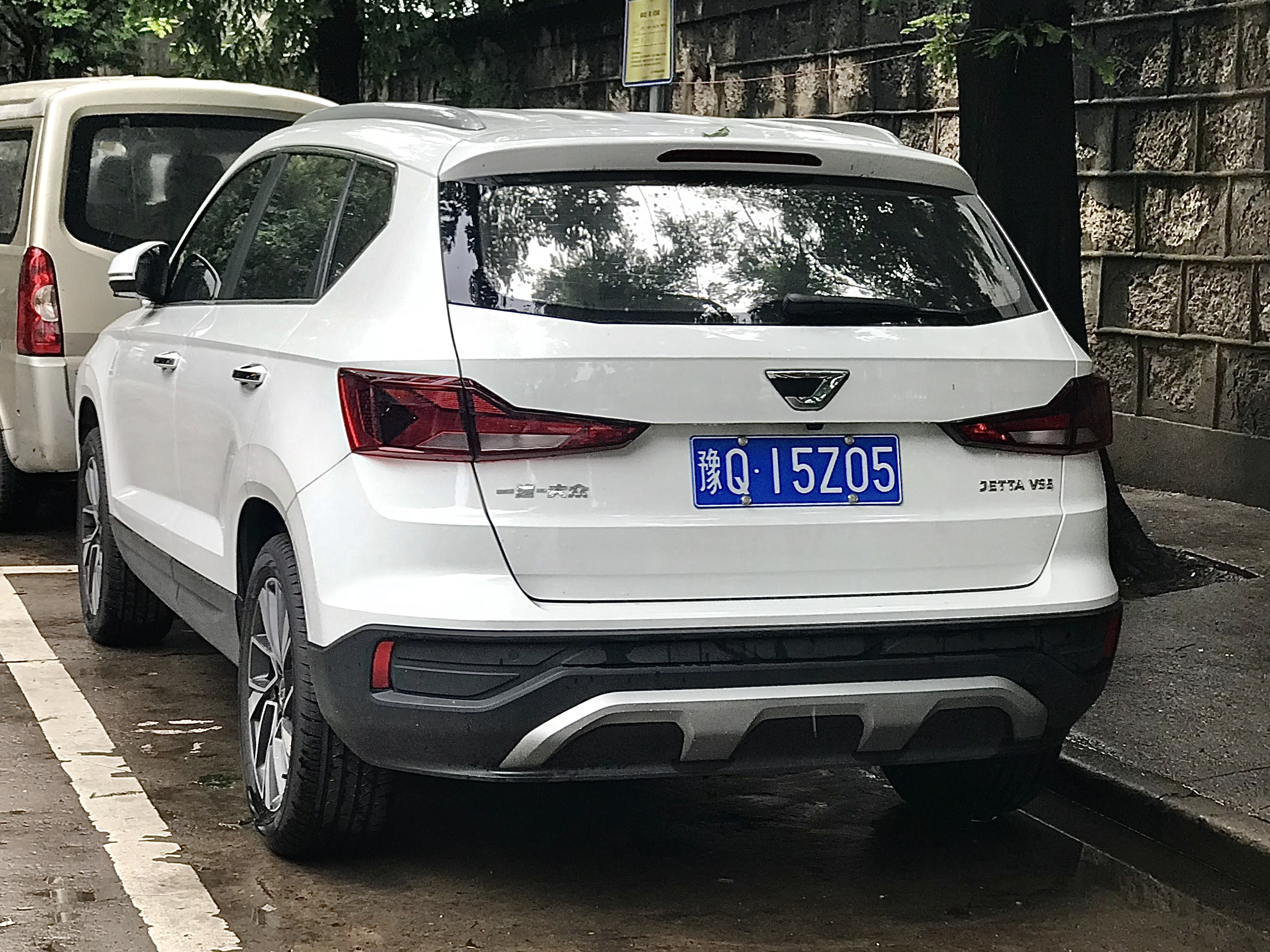 Jetta VS5 rear quarter view